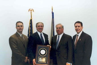 DEA Group Supervisor Harry Brady , United States Attorney Michael Sullivan, Boston Mayor Thomas Menino, and DEA Special Agent in Charge Mark R. Trouville shown holding the”Outstanding Comprehensive Strategic Plan award”. This award recognizes the efforts of the collaborative program to reduce firearm and drug related violence. Boston’s program was recognized as a national model for violence reduction and has been replicated in cities across the country.